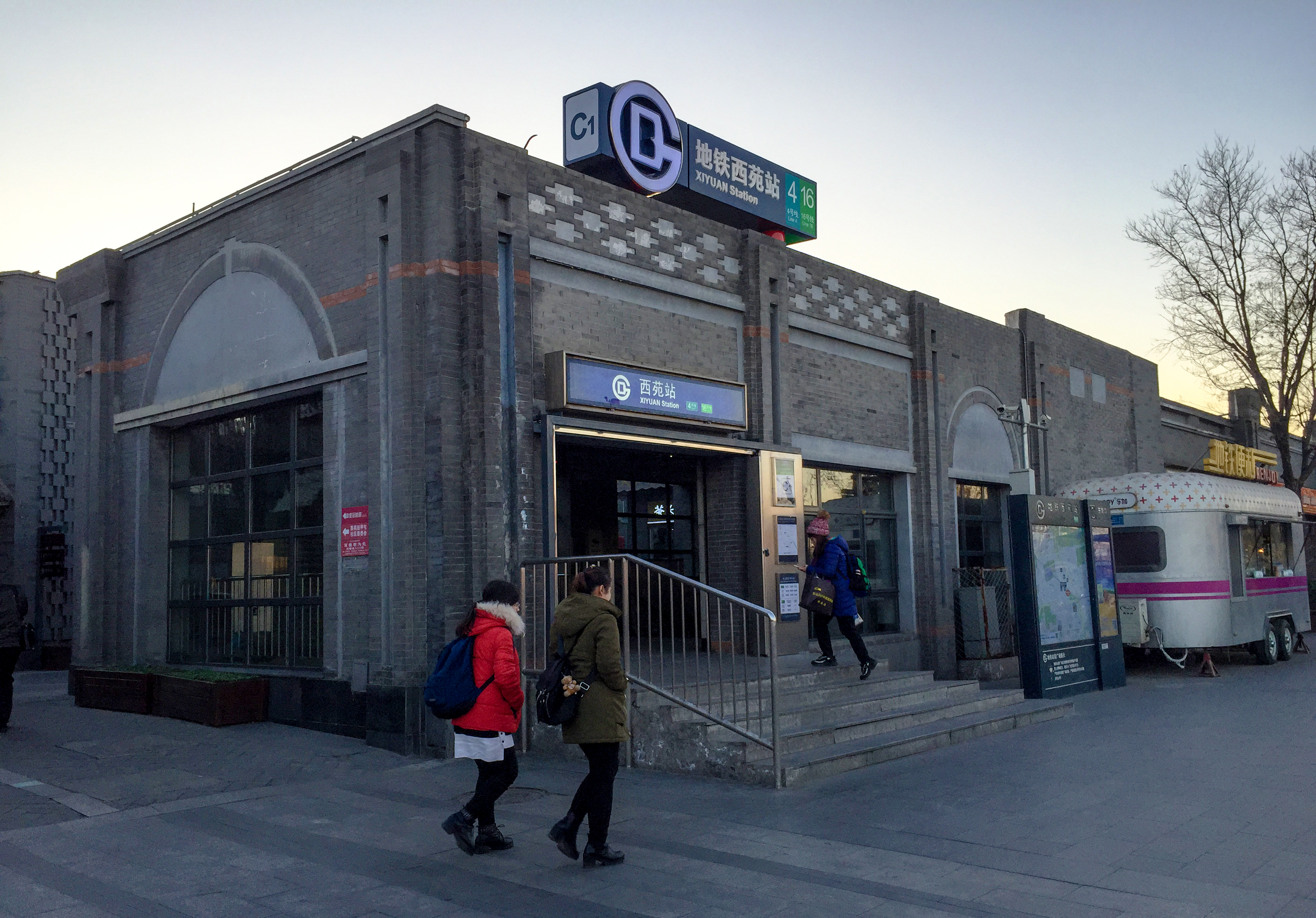 New sign installed just before the opening of L16.